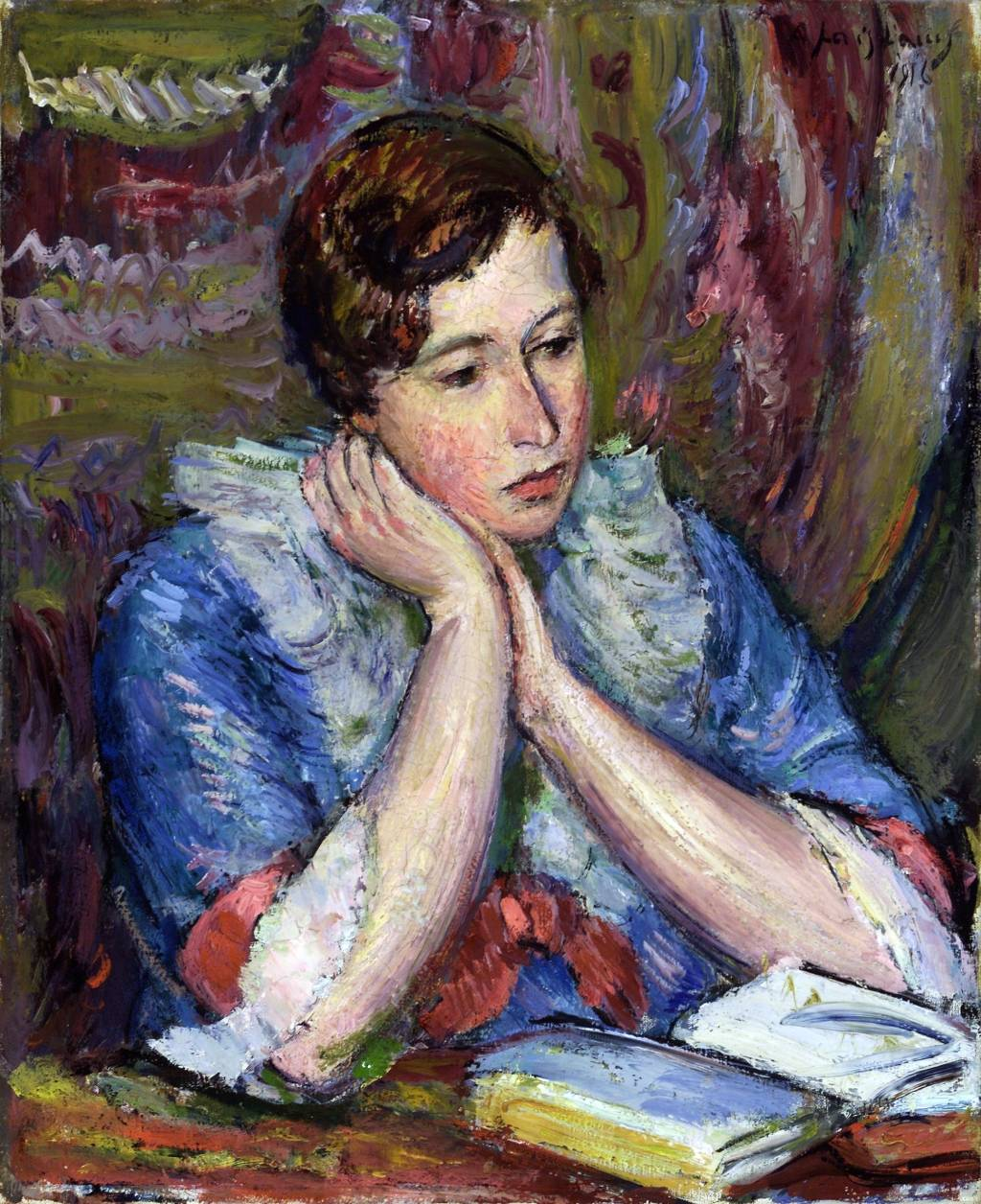 Woman reading